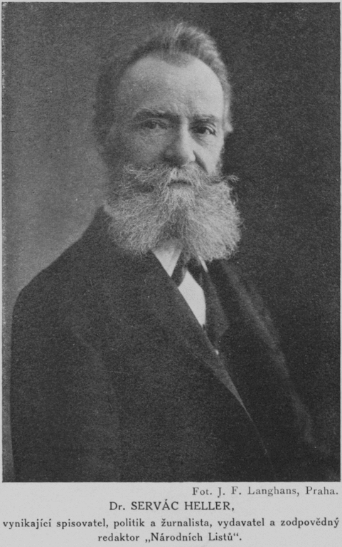 Portrait of Servác Heller (1845-1922), Czech journalist, politician and novelist